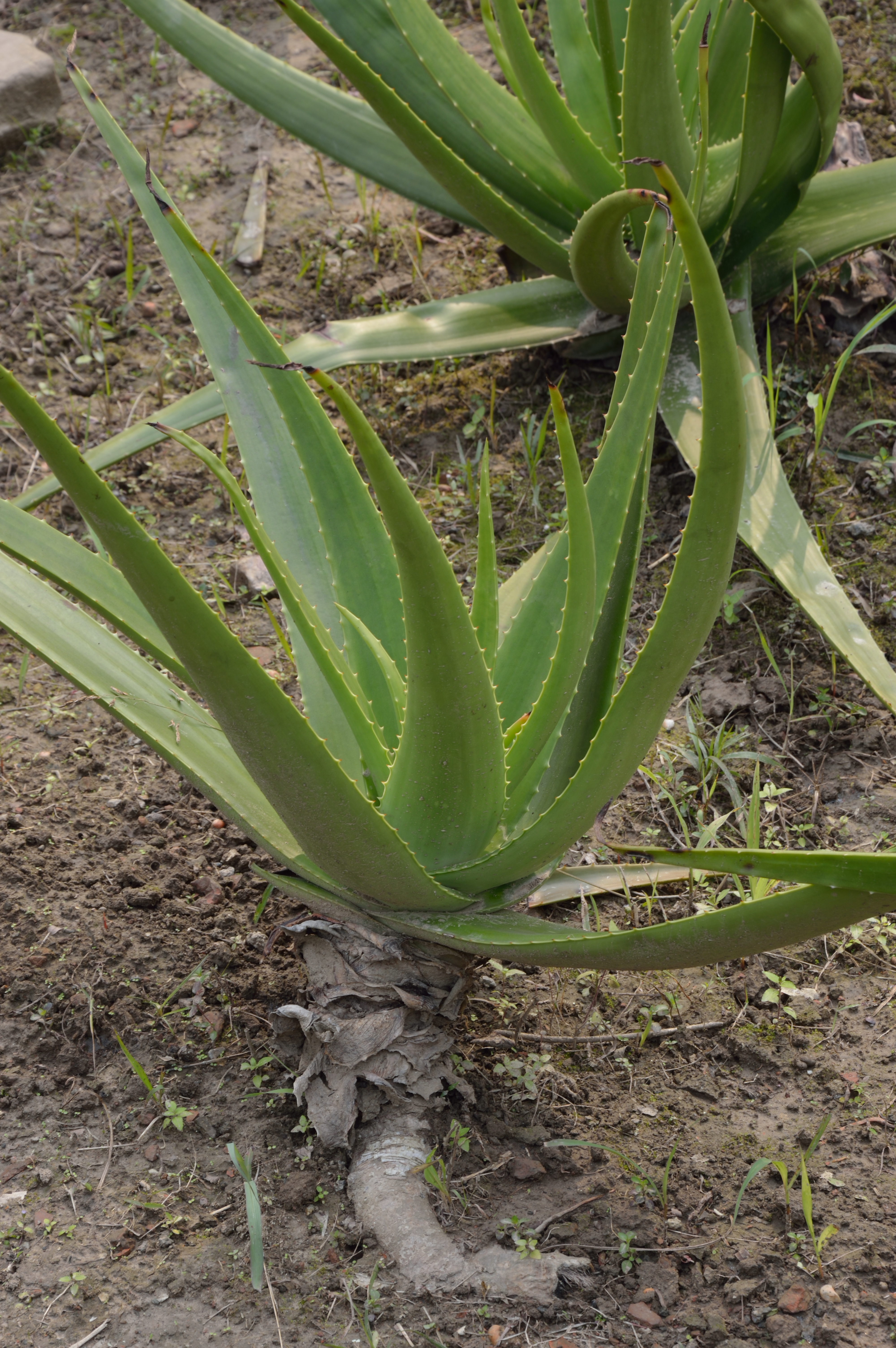 Photographs at The Agri-Horticultural Society of India, Alipore in Kolkata.